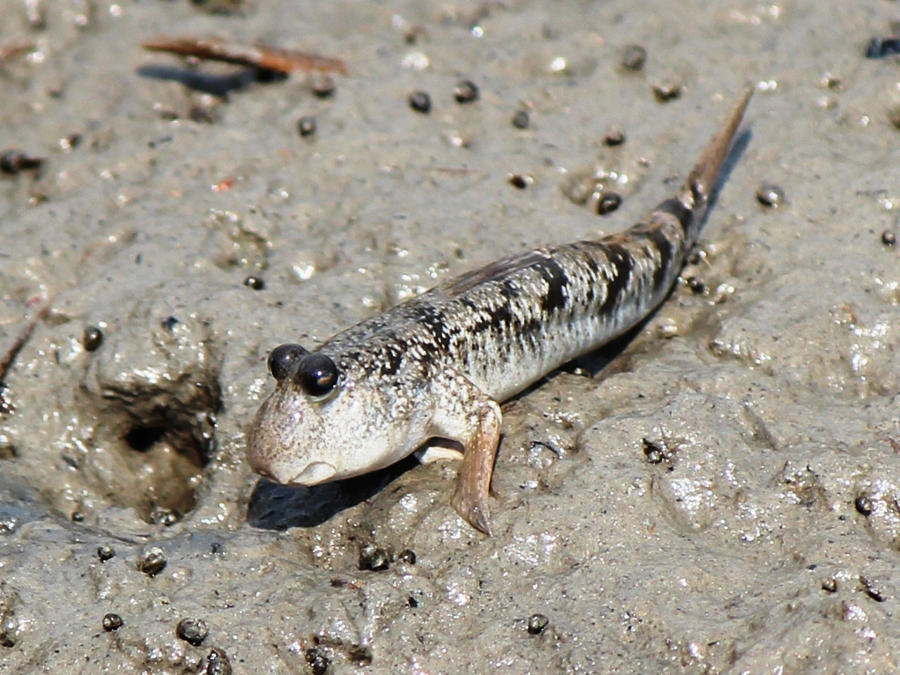 Periophthalmus modestus (Shuttles hoppfish), in Fujimae-higata